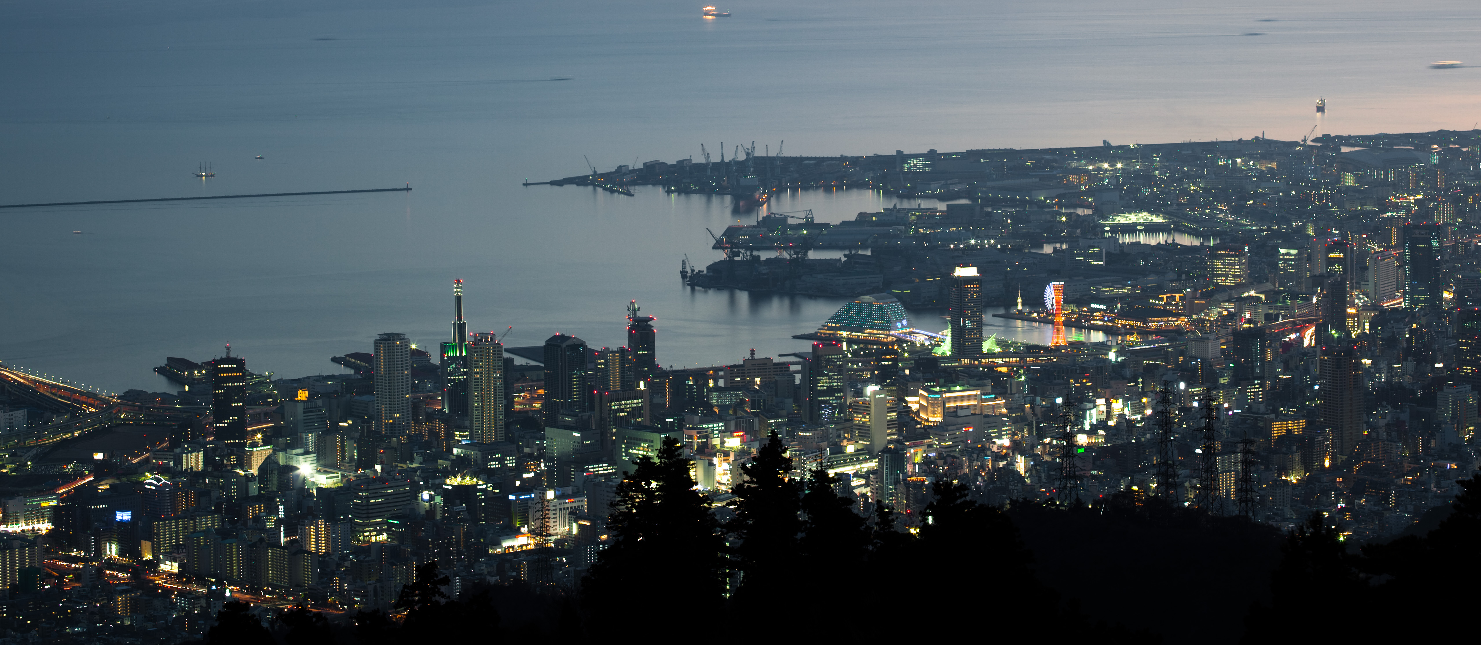 Downtown of Kobe from Mount Maya during twilight